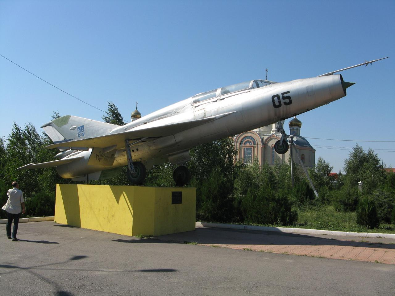 MiG-21, Ukraine, Avangard